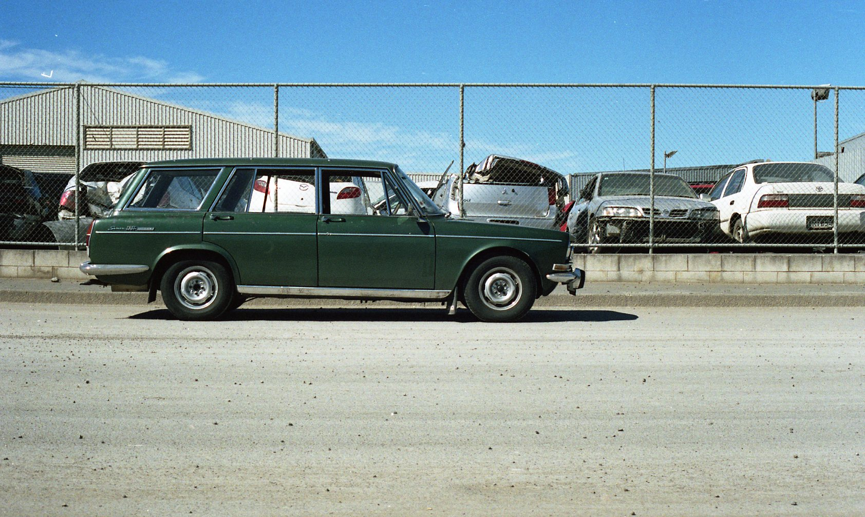 New Zealand market 1970 Simca 1501 Special.